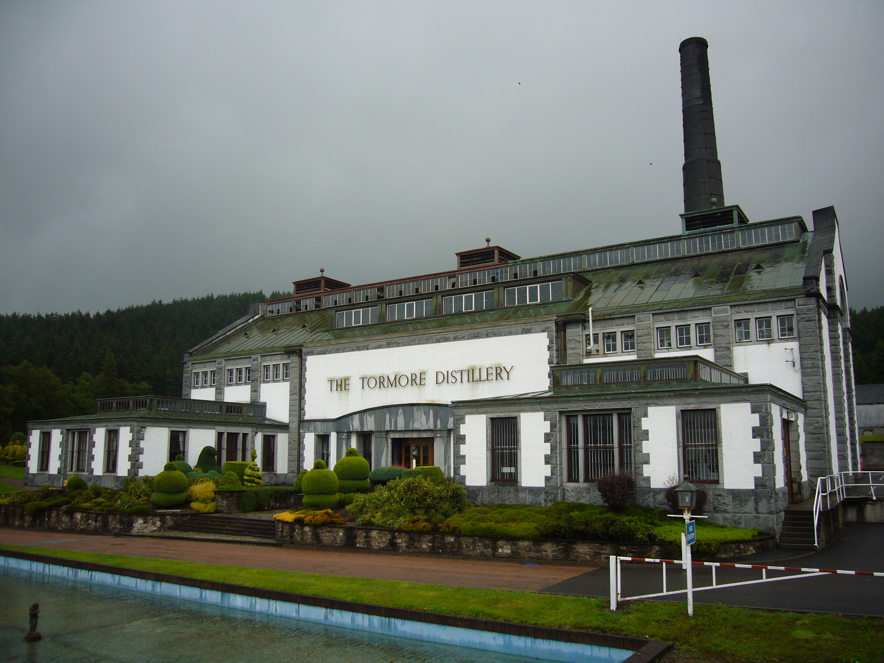 Tormore Destillery and topiary shrubs